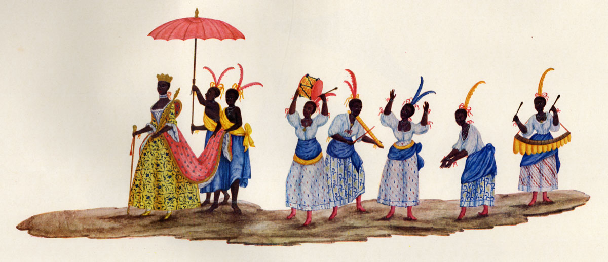 Festival of the King, Rio de Janeiro, Brazil, ca. 1770s